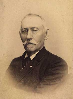 Lars Larsen (1821-1902), Danish furniture maker and politician